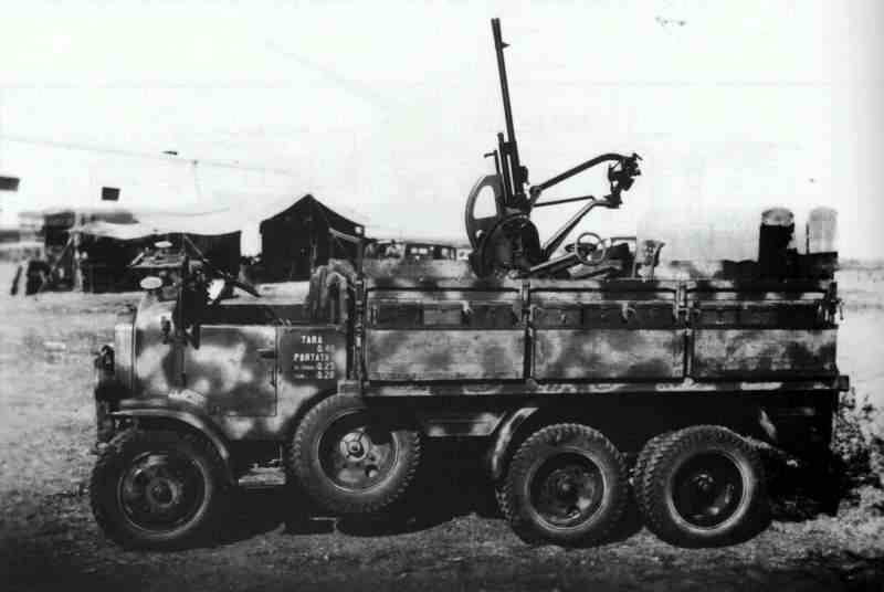 WW2 era italian truck